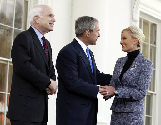 Republican presidential nominee Senator John McCain and his wife Cindy with President George W. Bush at the White House, Wednesday, March 5, 2008.